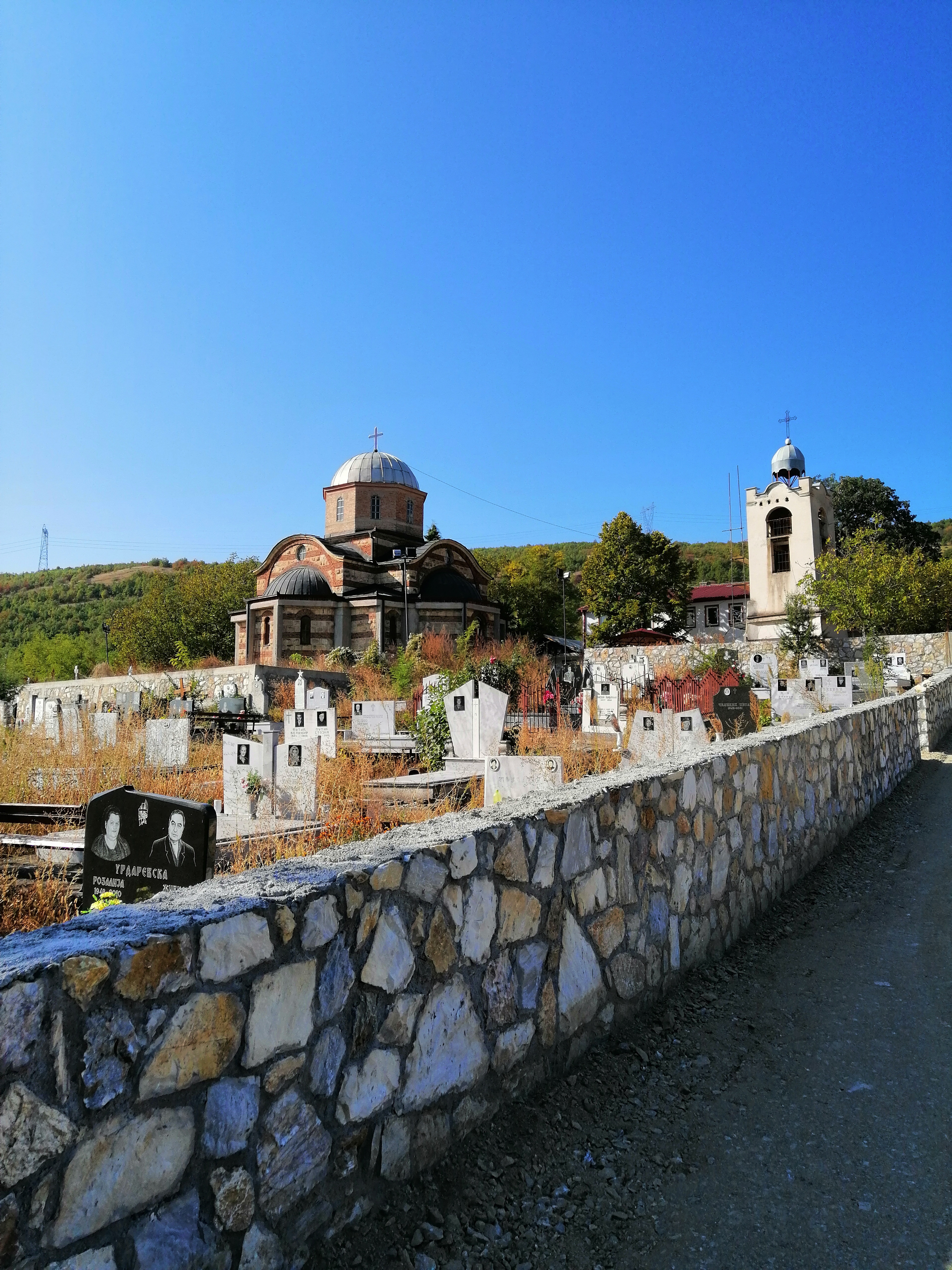 View of the Holy Trinity Church in the village Čučer Sandevo